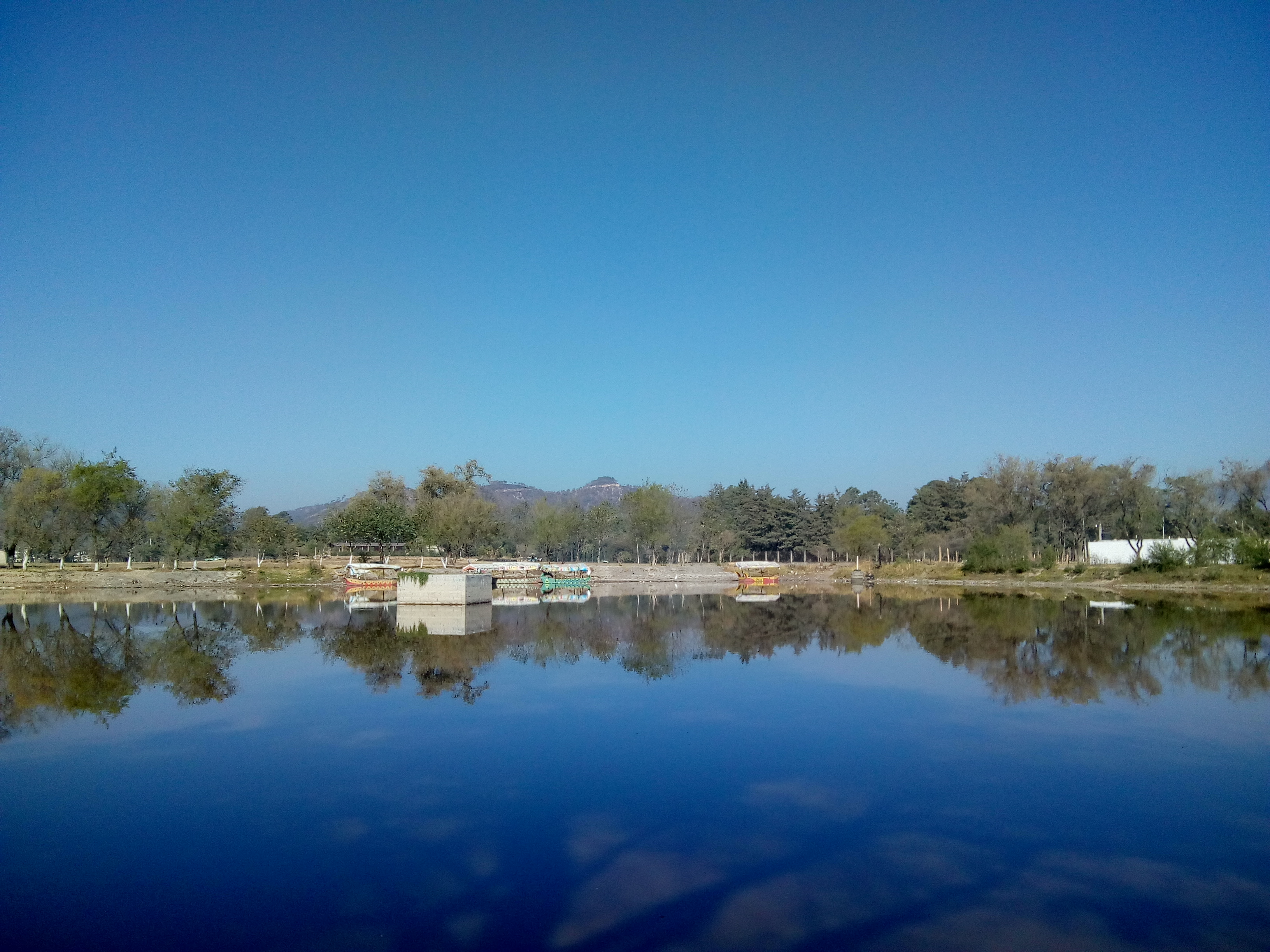 Laguna de Zaculeu, Huehuetenango Department, Guatemala